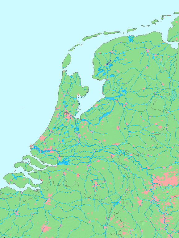 Location Sneeker Oudvaart Friesland the Netherlands.png